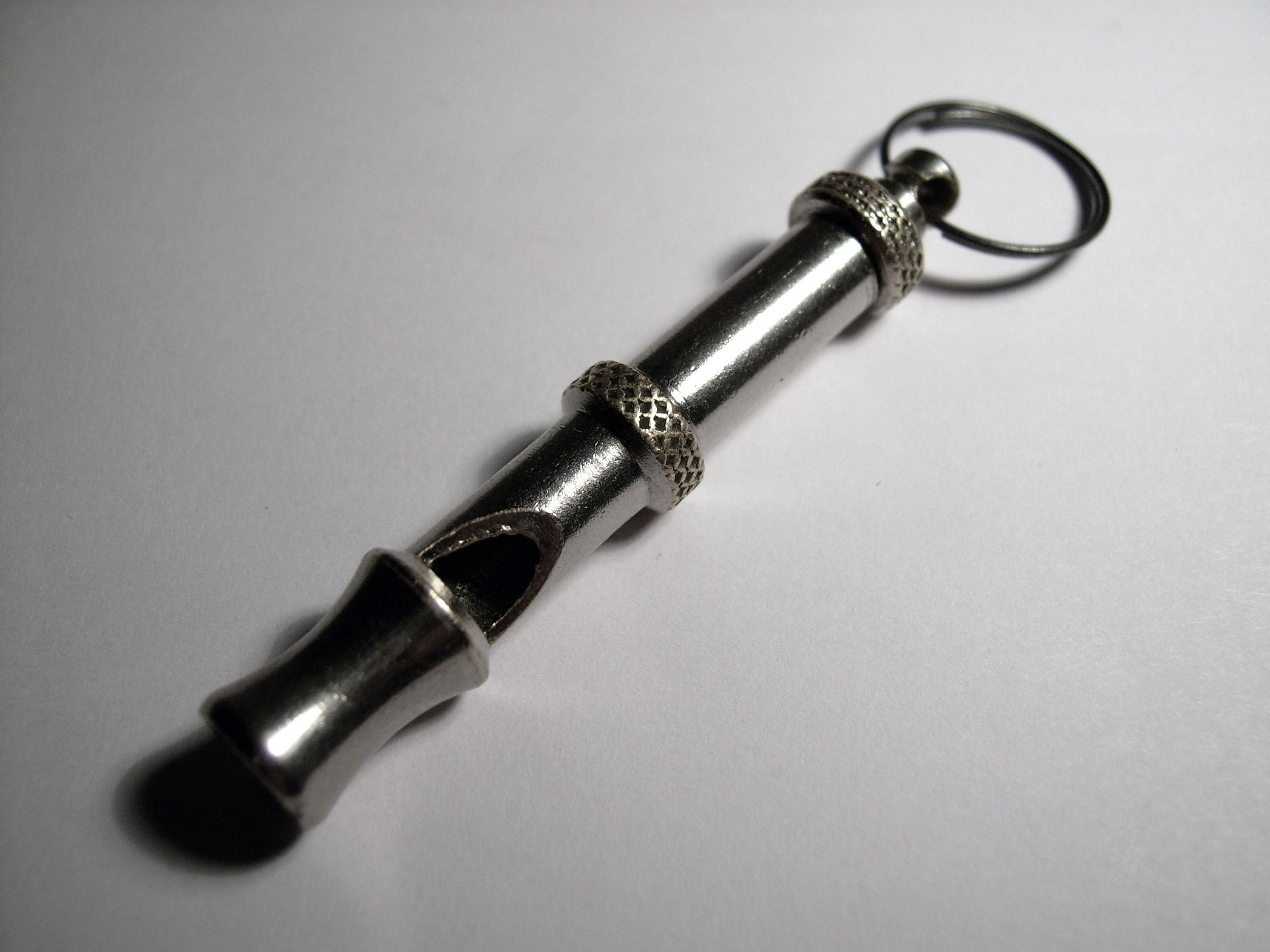 Ultrasonic dog whistle. It produces sound in the ultrasonic range, with frequency above the audible range, which dogs can hear but people can't.